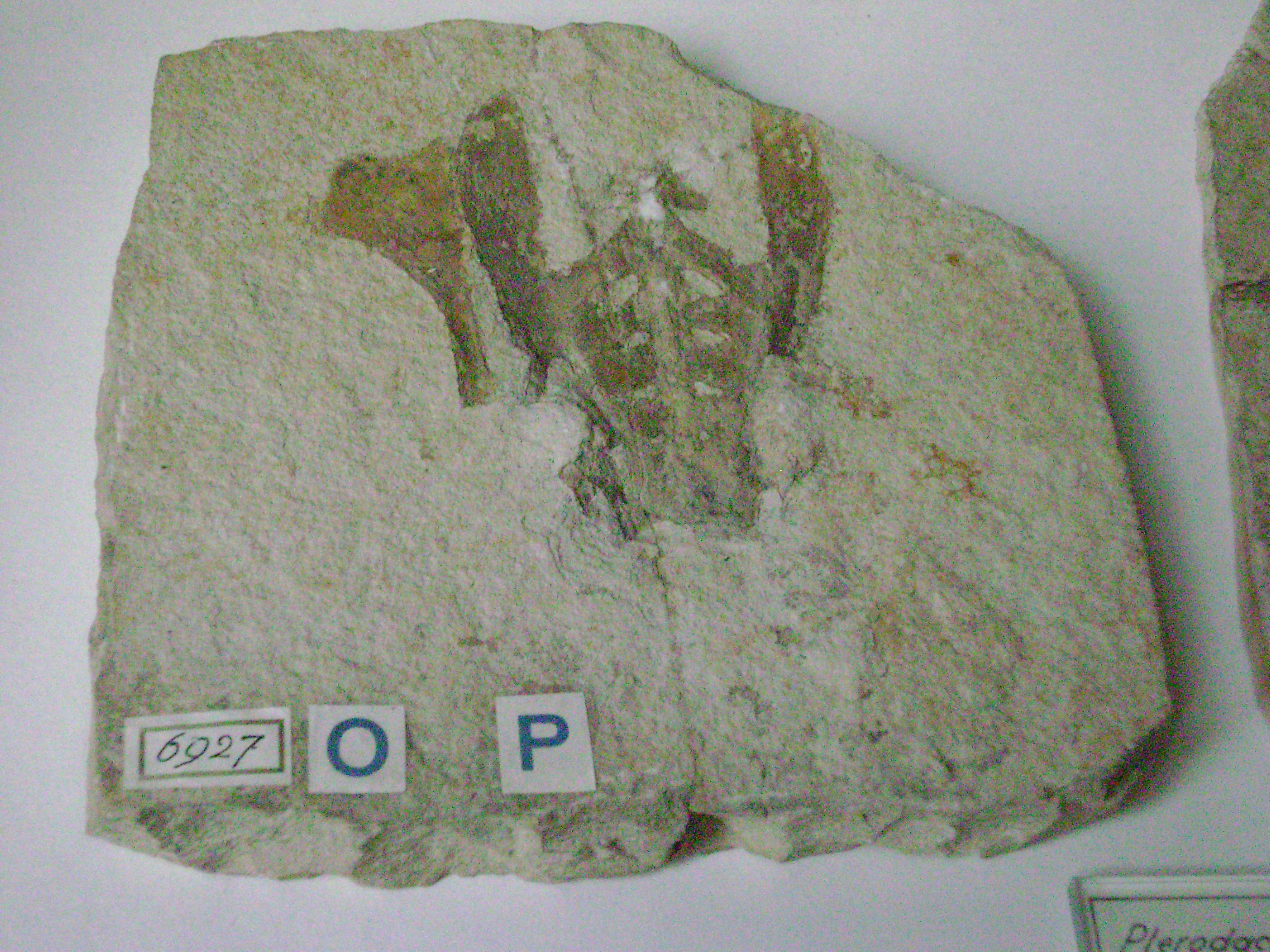 Specimen of Pterodactylus grandipelvis at the Teylers Museum, Haarlem